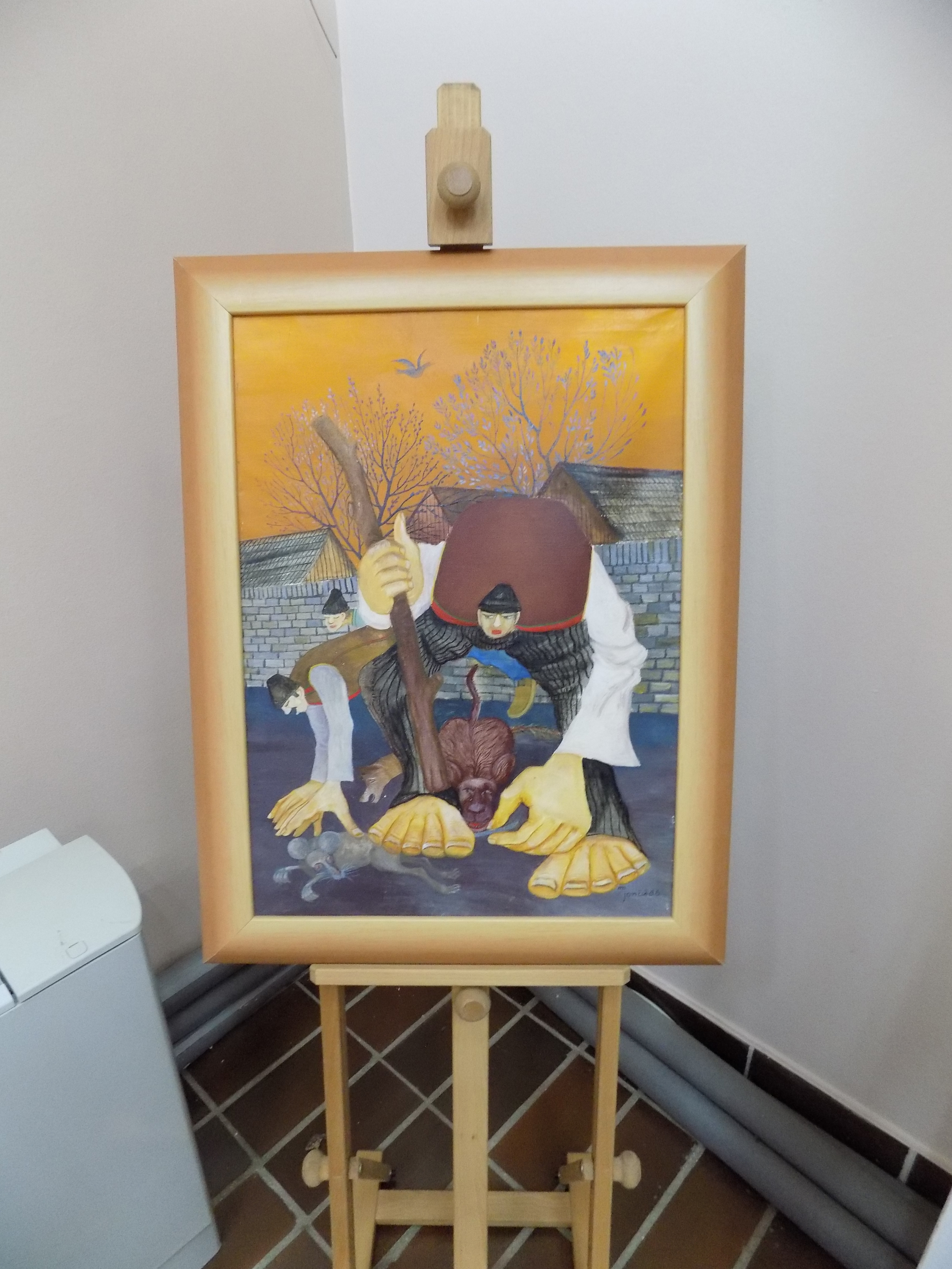 Paintings by Martin Jonasáš in the Gallery of Naive Art in Kovačica